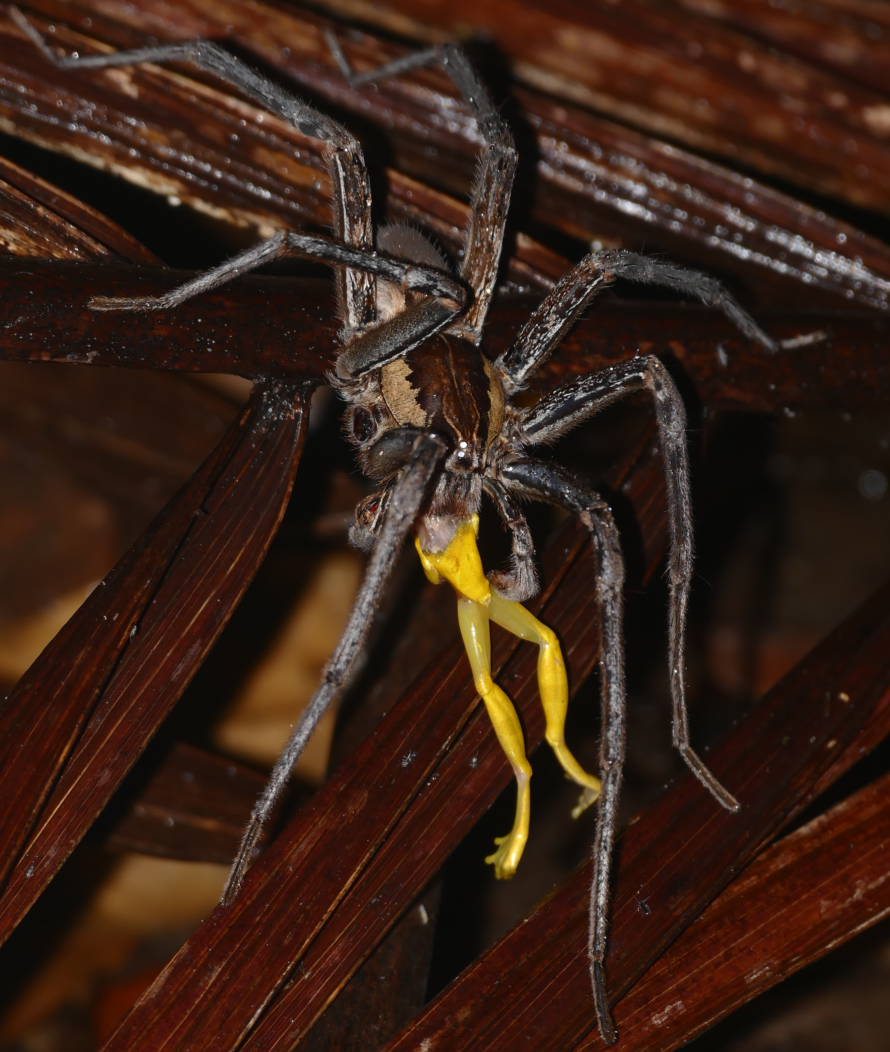 D6 Route de Kaw, Roura, French Guyana, FRANCE